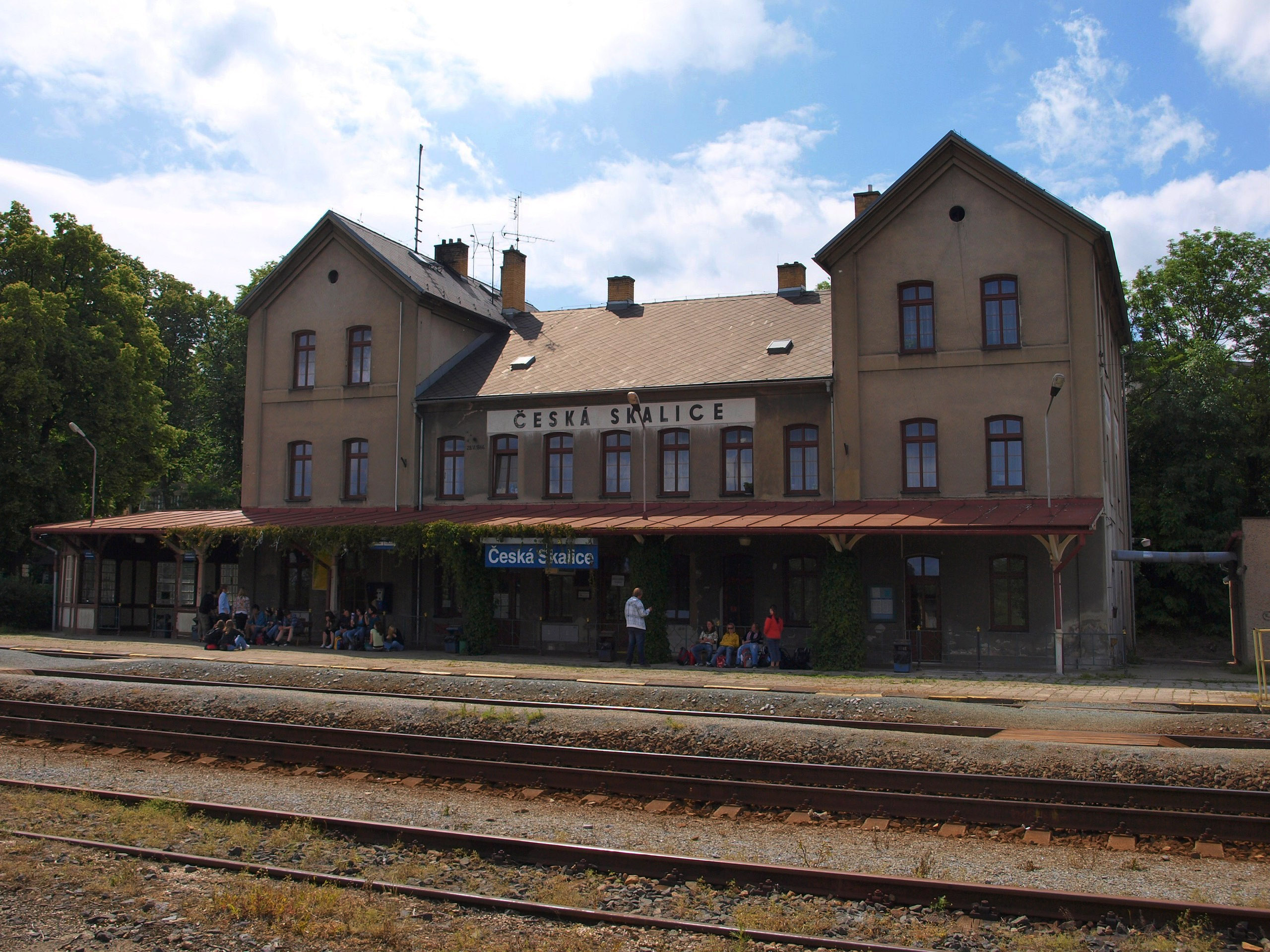 Train station, Česká Skalice